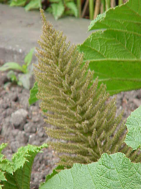 Species: Gunnera tinctoria Family: Haloragaceae Image No. 2